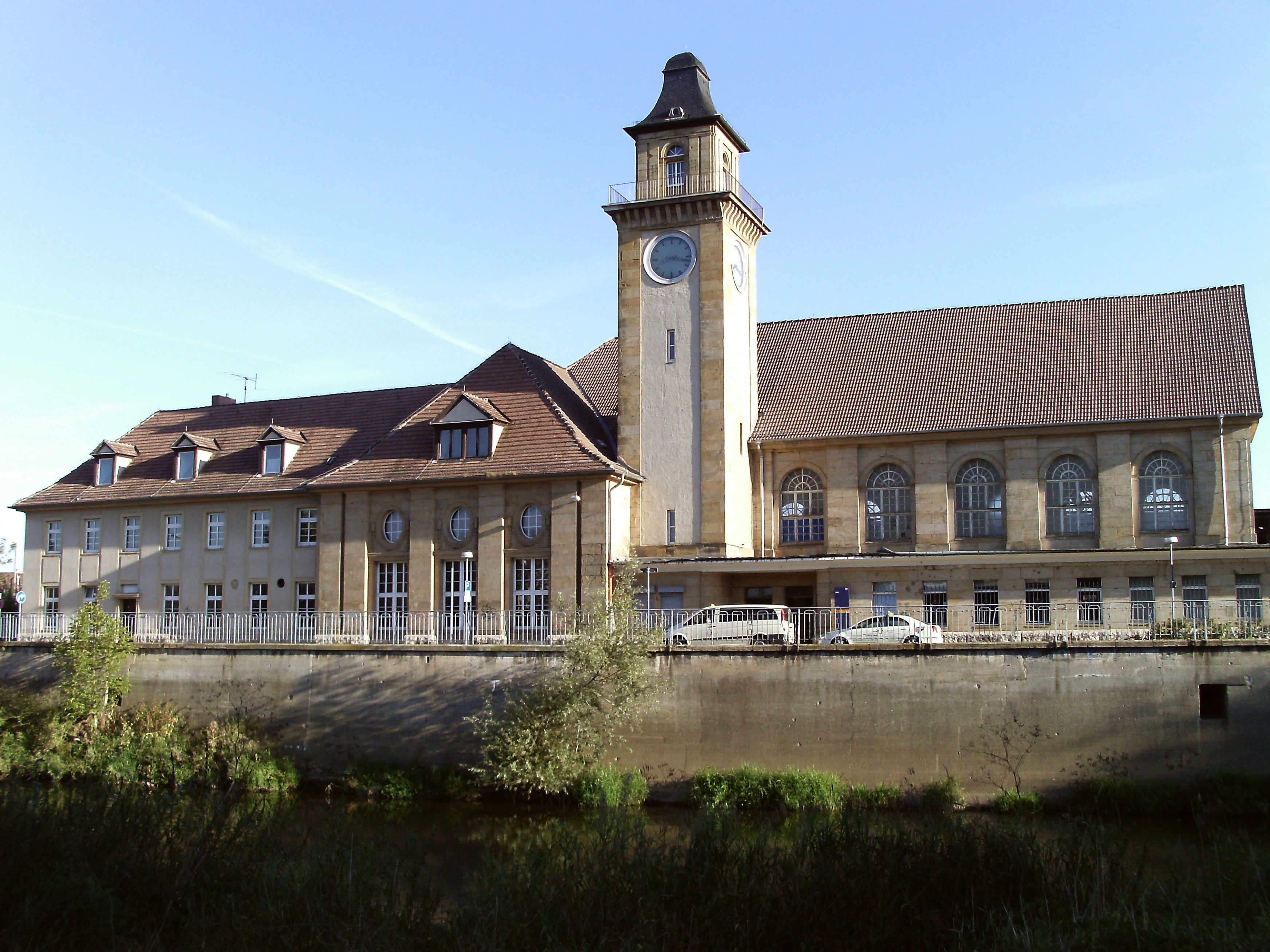 Zeitz train station (district of Burgenlandkreis, Saxony-Anhalt), view over the Weisse Elster river